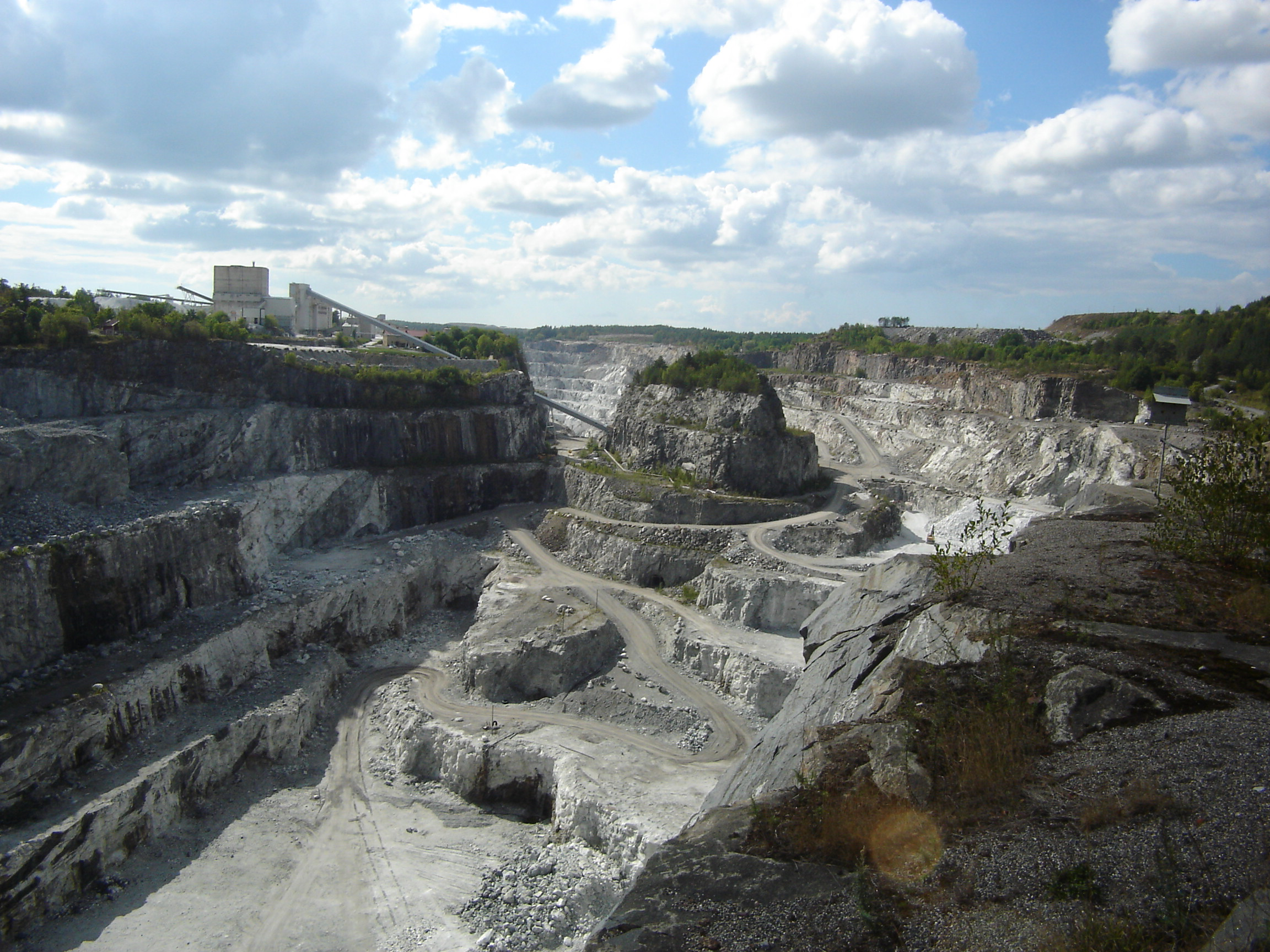 Chalk-pit in Pargas, Finland